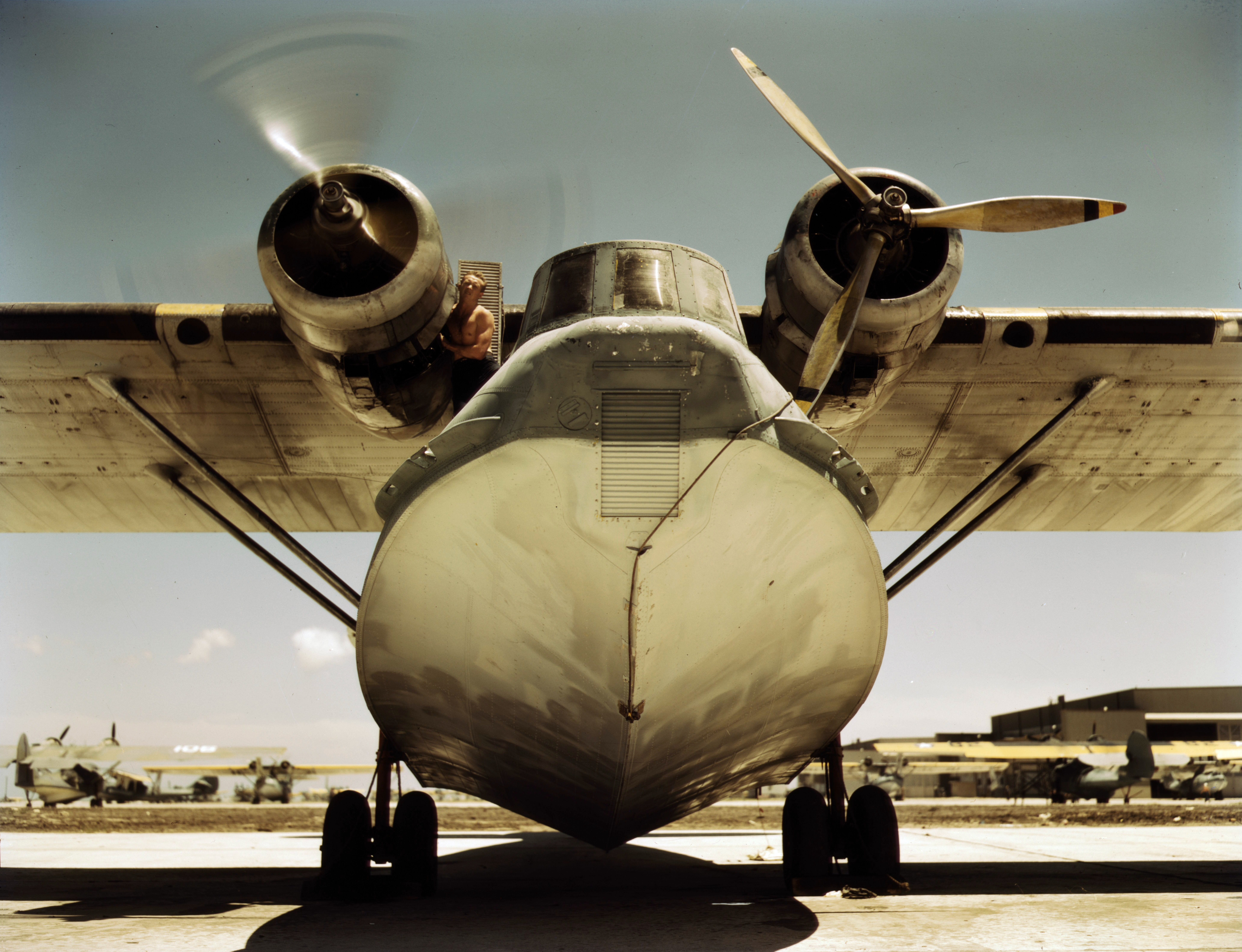 A U.S. Navy Consolidated PBY Catalina at the Naval Air Station Corpus Christi, Texas (USA), in August 1942.